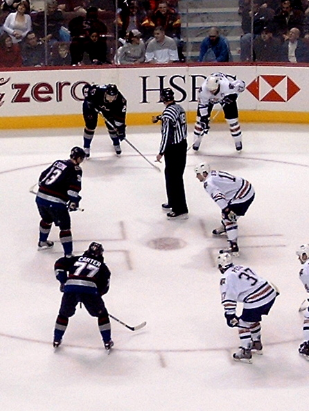 Vancouver Canucks forwards Daniel Sedin (22), Henrik Sedin (33) and Anson Carter (77) face off against a trio of Edmonton Oilers forwards during a game at GM Place in Vancouver, British Columbia, Canada.